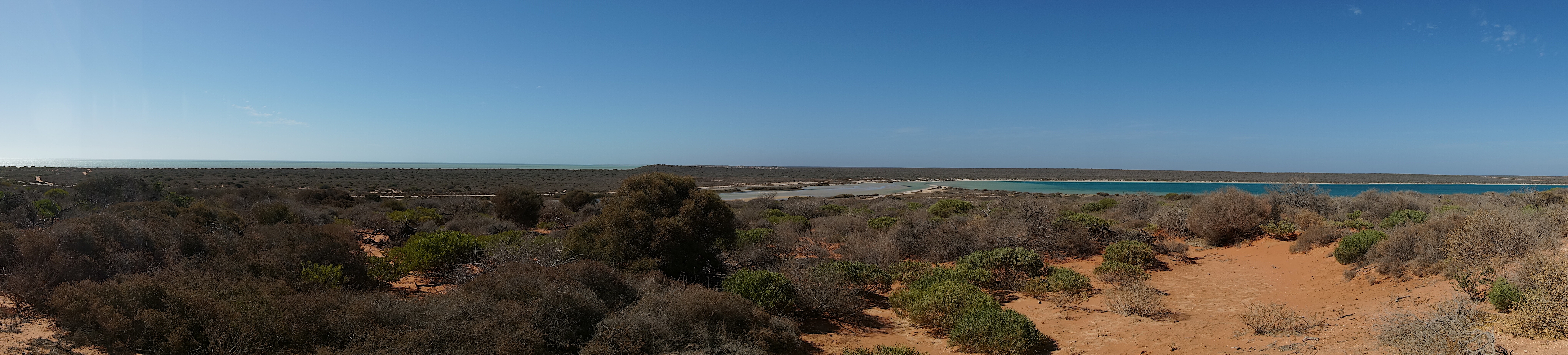 Little Lagoon, north of Denham, Western Australia.